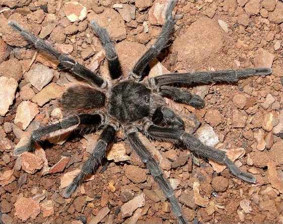 Acanthoscurria gomesiana, male.